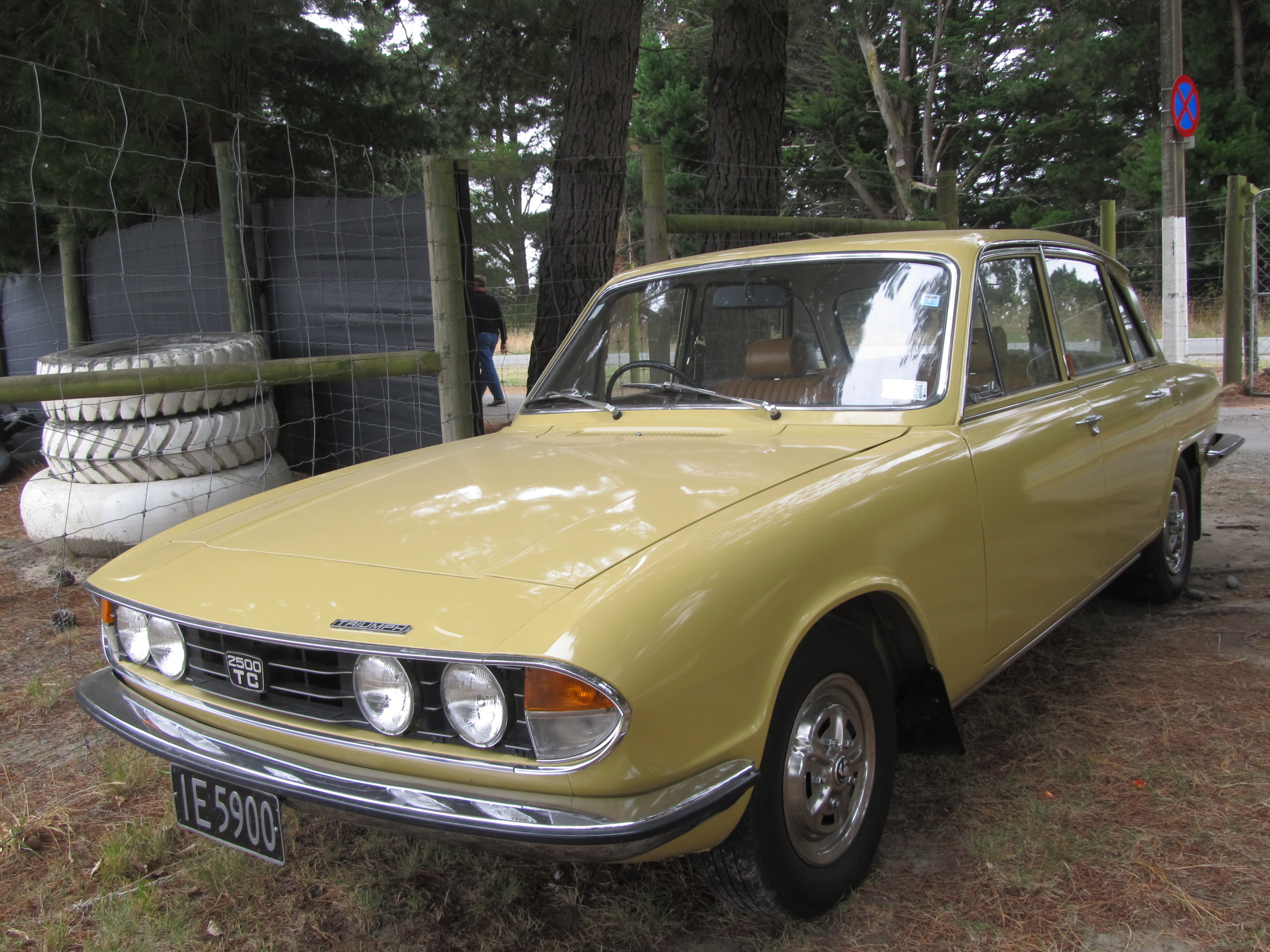 IE5900 My God, this was utterly pristine! The front plate doesn't look right, however... There are still many, many 2500s on NZ roads - strangely - and it is not uncommon to see ones in daily use. Beige ones are not particularly common. In New Zealand, CKD production of the Triumph 2000 continued at New Zealand Motor Corporation's Nelson plant, with 2500S models until March 1979. Sir Robert Muldoon, New Zealand's then Prime Minister, privately owned a 2500S and had been known to drive to work in it. This, along with the Austin Mini, Morris Minor, Ford Escort and Cortina, BMC ADO16 and Toyota Corolla, is a true 'Car of New Zealand.'